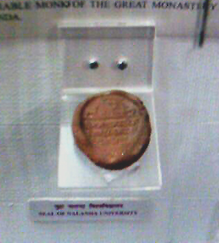 Shot by uploader. Photo of the terracota seal of Nalanda University on display in the Archaeological Survey of India museum in Nalanda.